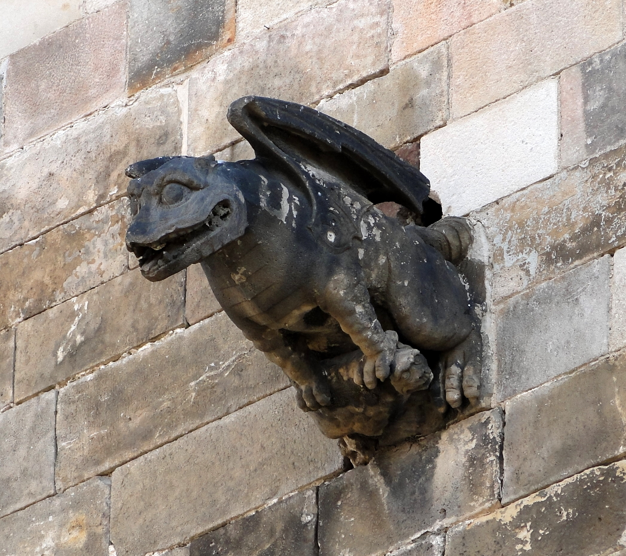 Gargoyle on Cathedral of Santa Eulalia, Barcelona, Spain